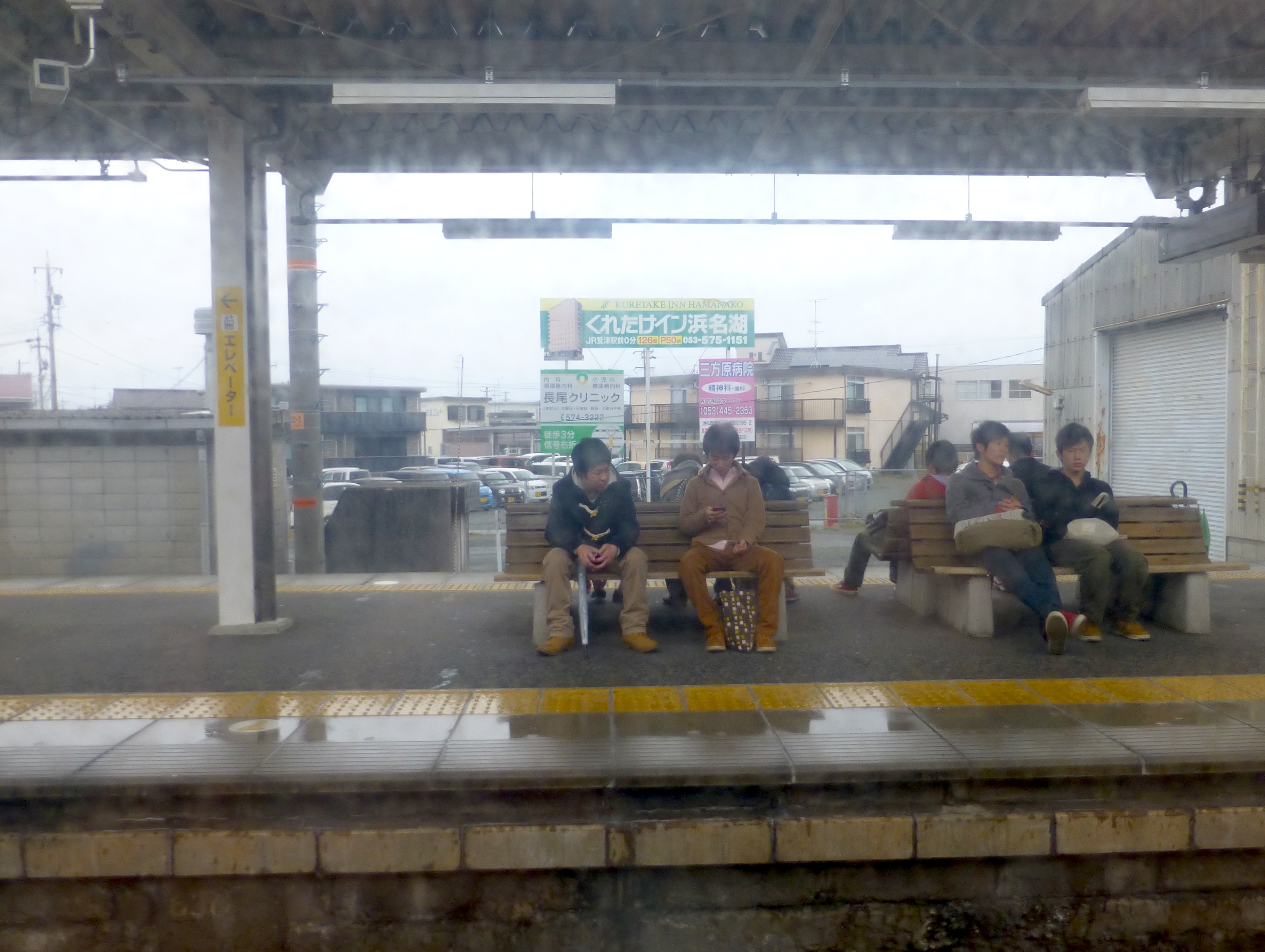 Washizu station (鷲津駅） --- showing the station platforms on a rainy day.